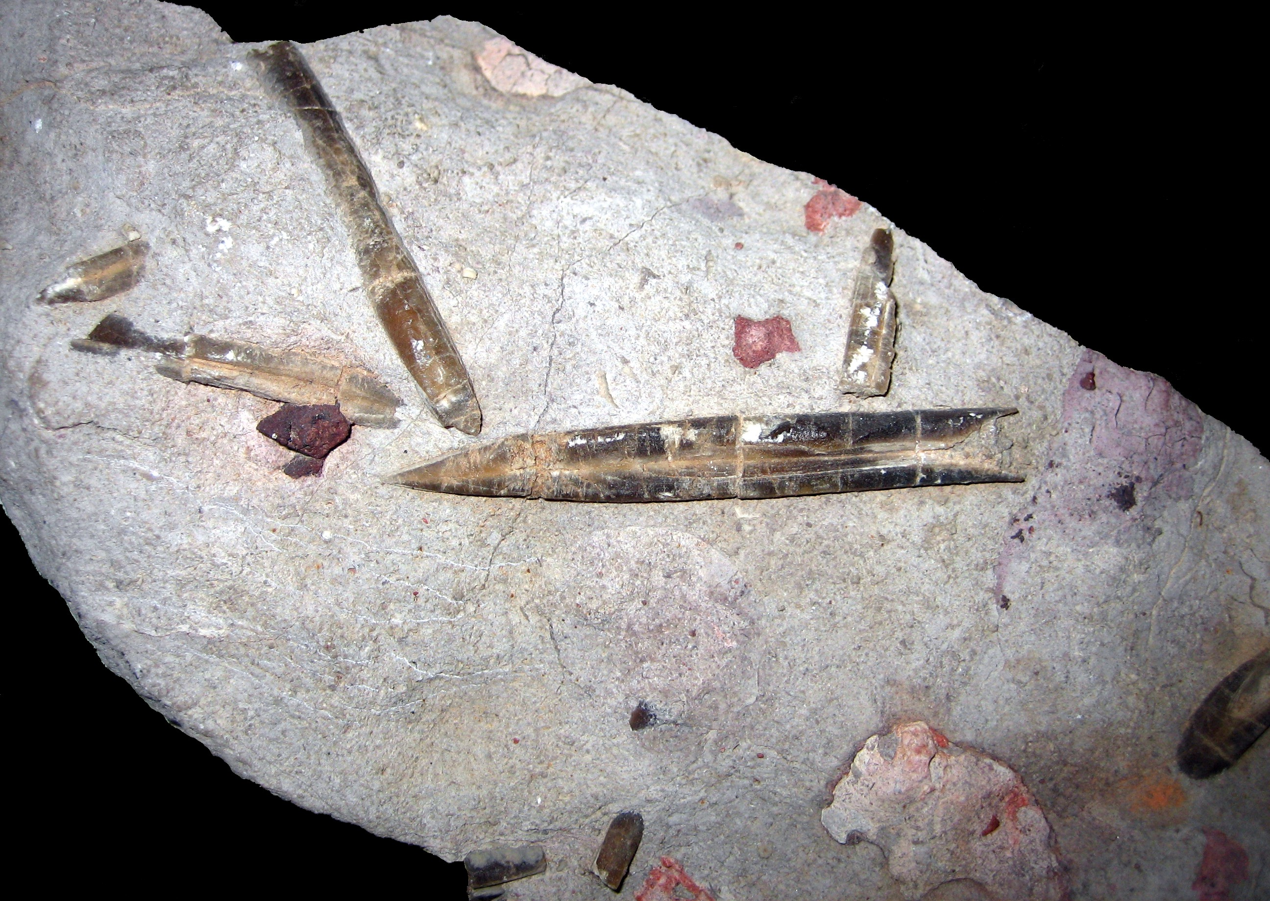 Belemnites. Alfara de Crales (Les Foies, Ports de Tortosa-Beseit)